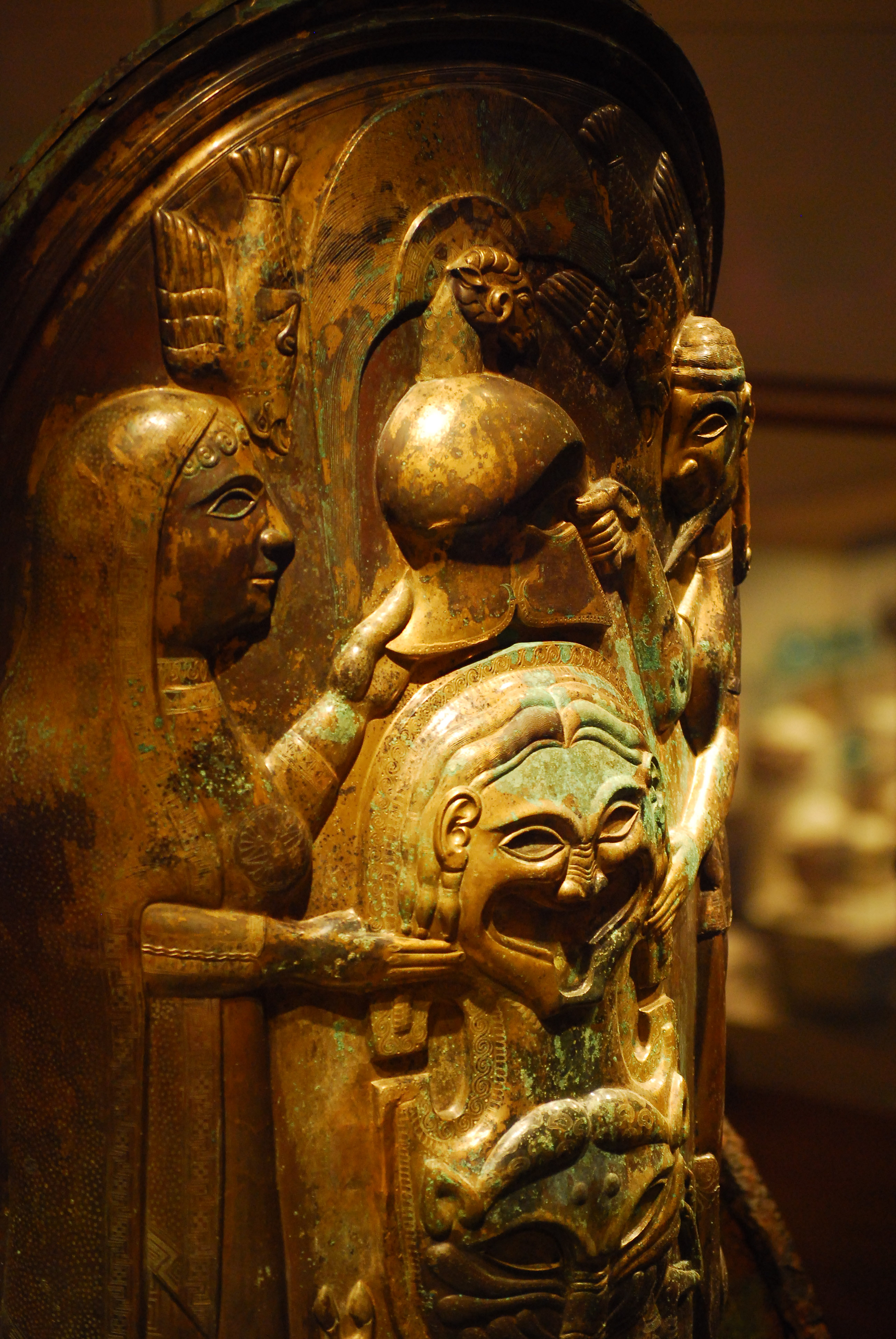 The Monteleone Chariot is an Etruscan chariot dated to ca. 530 BC. It was originally uncovered at Monteleone di Spoleto and is currently part of the collection of the Metropolitan Museum of Art in New York City. Though about 300 ancient chariots are known to still exist, only six are reasonably complete, and the Monteleone chariot is the best-preserved. (This summary was created using Commons SumItUp). Detail of the front of the chariot